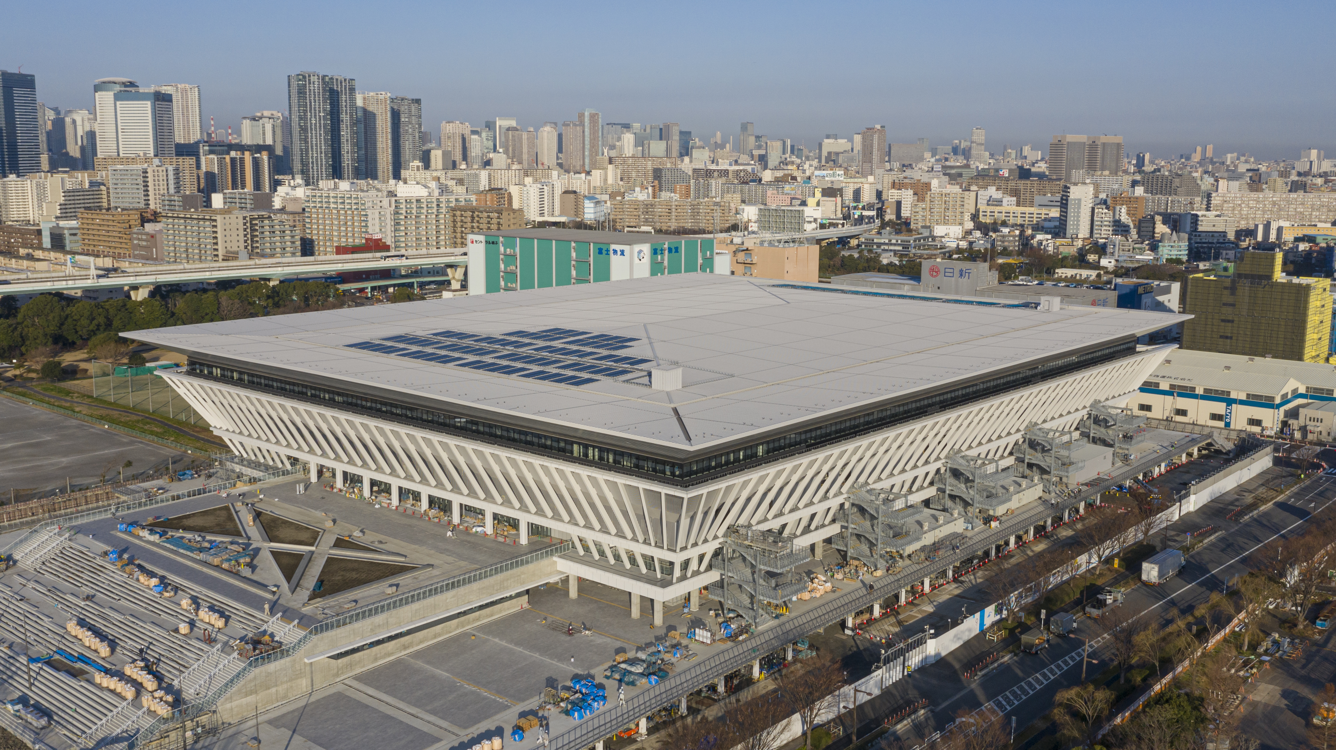 Aerial view of Tokyo Aquatics Centre